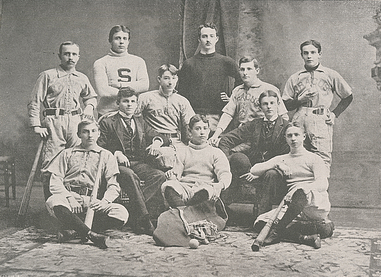 Syracuse University varsity baseball team, 1894 (courtesy Syracuse University Archives)